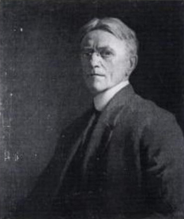 Self portrait, 1913, oil on canvas, 30 x 25 inches, National Academy of Design